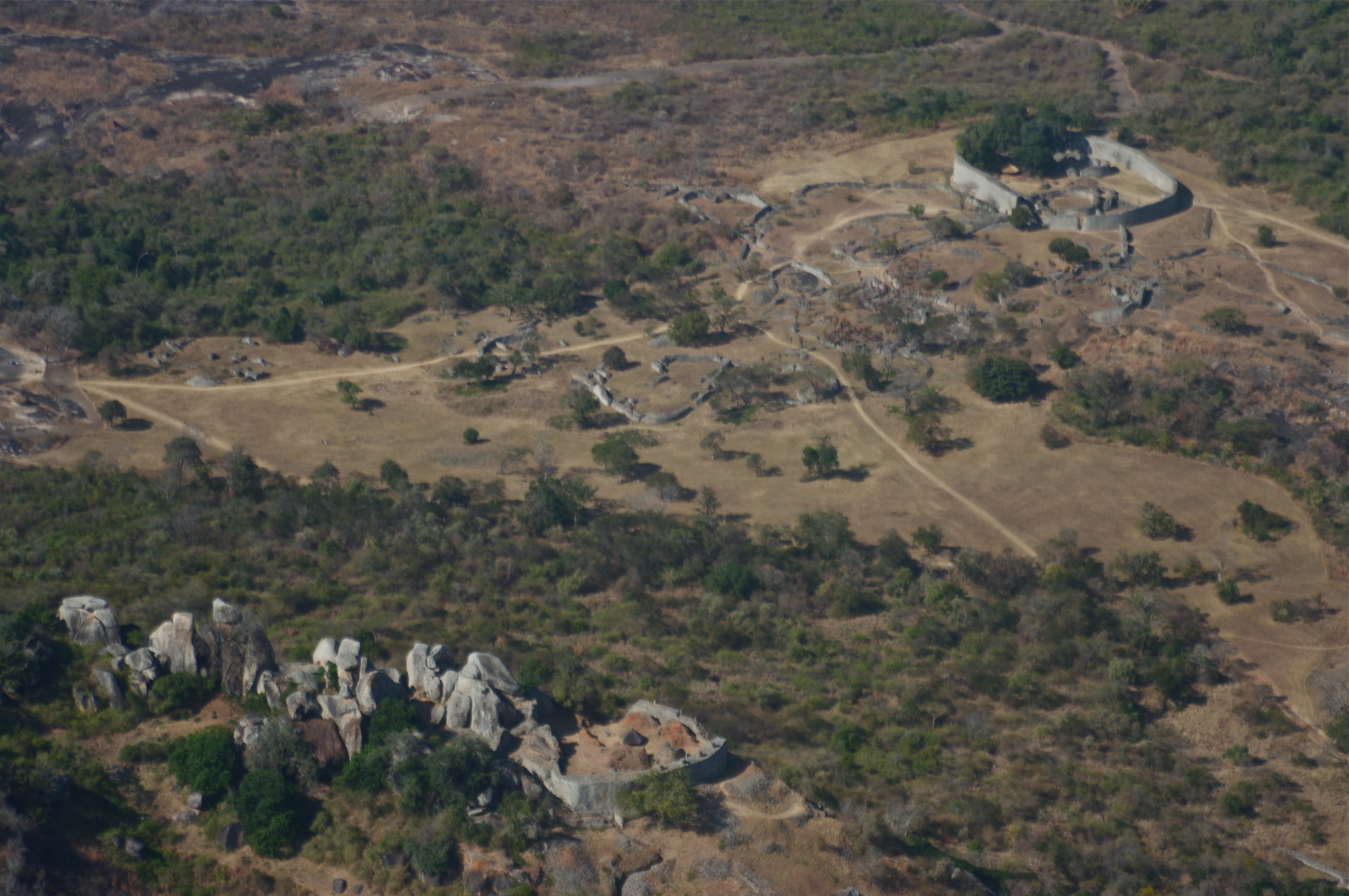 ę Part of the Hill Fort is visible in the foreground.